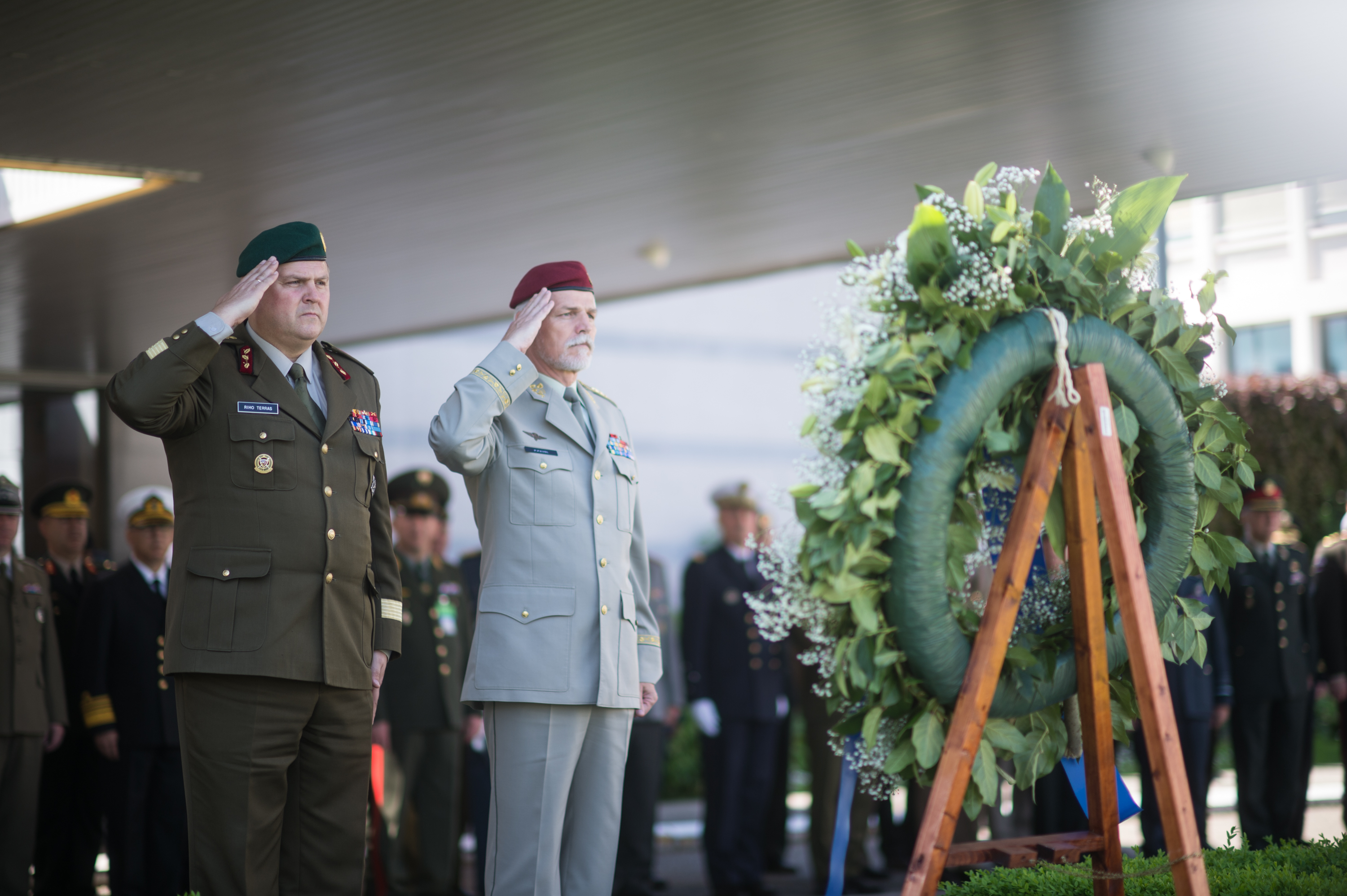 Estonian Gen. Riho Terras, Commander of the Estonian Defence Forces, and Czech Republican Gen. Petr Pavel, Chairman of the NATO Military Committee, render honors during a Wreath Laying ceremony outside NATO Headquarters in Brussels, Belgium, during a Military Committee in Chiefs of Defense (MC/CS) Session, May 17, 2017. The Chiefs of Defense meet to discuss Afghanistan, countering terrorism and other NATO operations and missions to provide the North Atlantic Council with consensus-based military advice on how to best meet global security challenges. (DoD Photo by U.S. Army Sgt. James K. McCann)